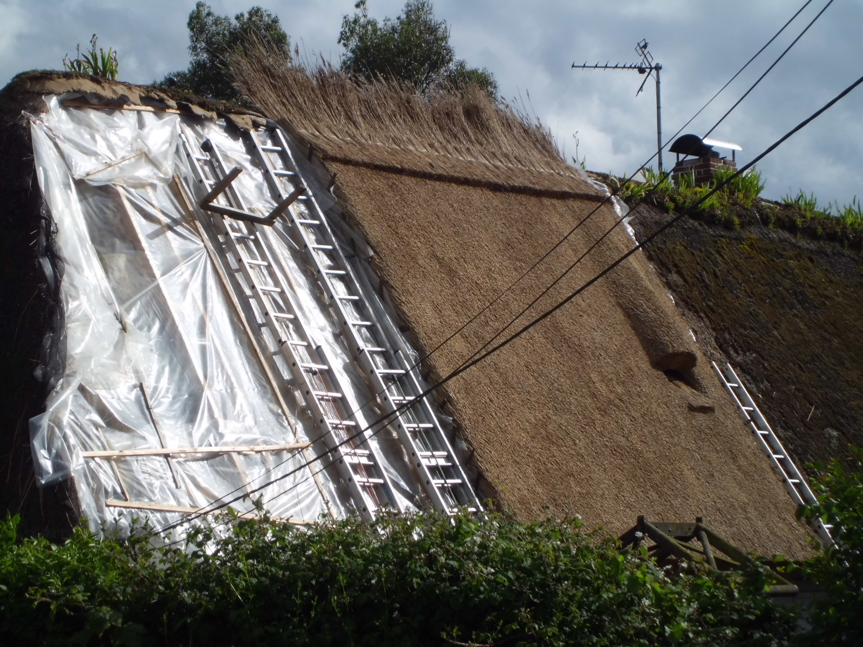 Thatching in Roumois, Normandy